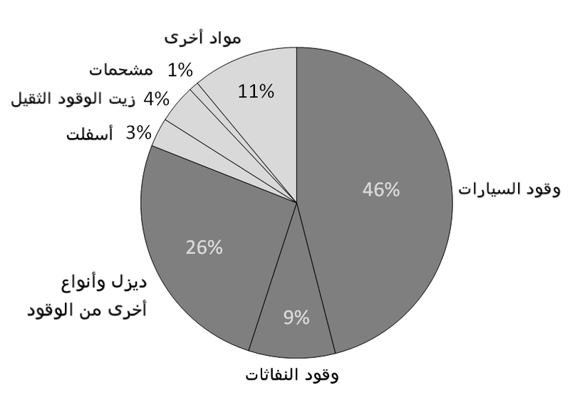 Petroleum products made from a typical barrel of US oil. Dark grey represents fuels, light grey is other products.